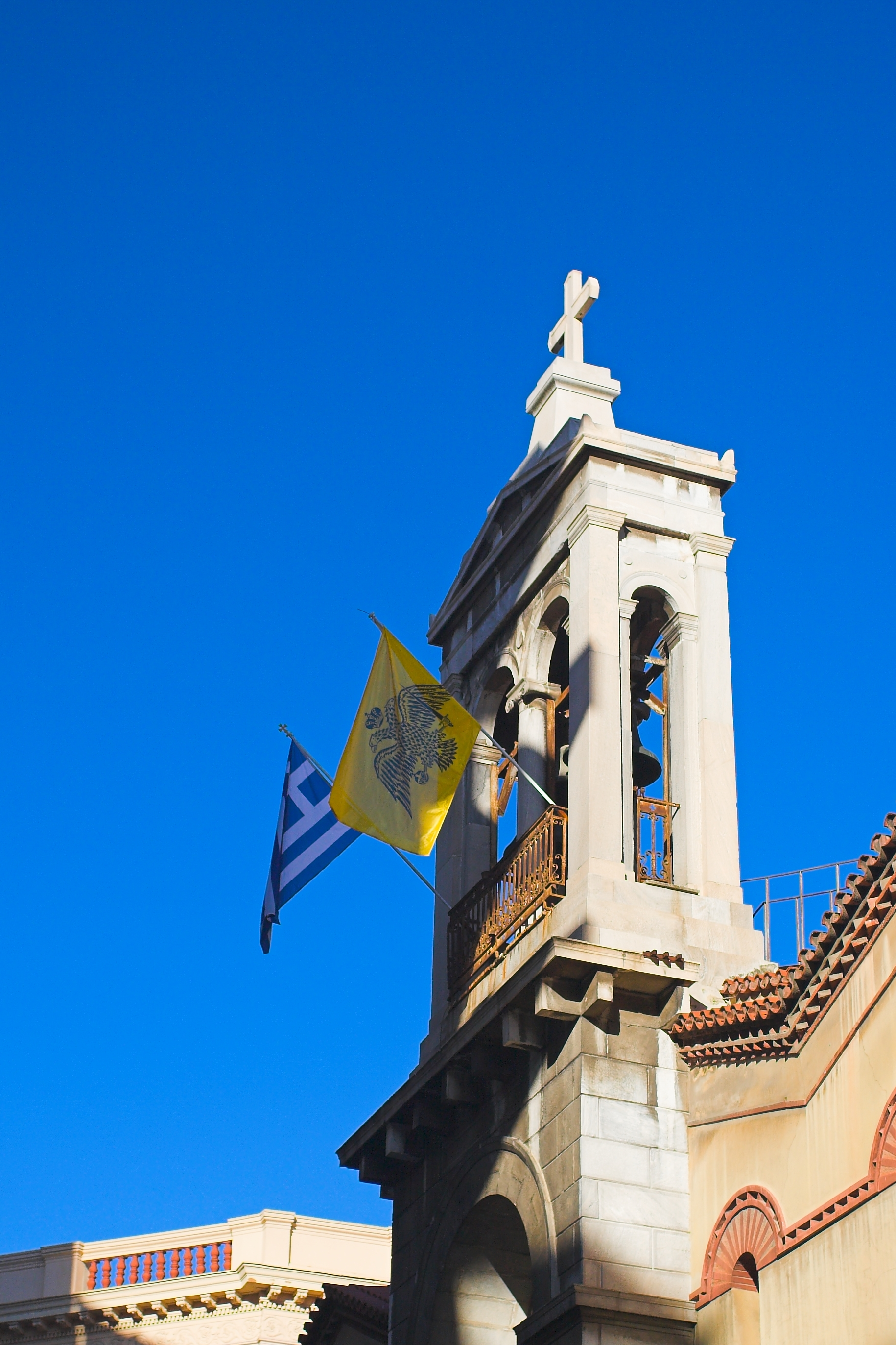 A picture from modern day Greece (2005), showing the flag of the Palaiologos dynasty used by a church (Ayios Georyios Karitsi). Photo by Thermos. Shot with polarising filter.